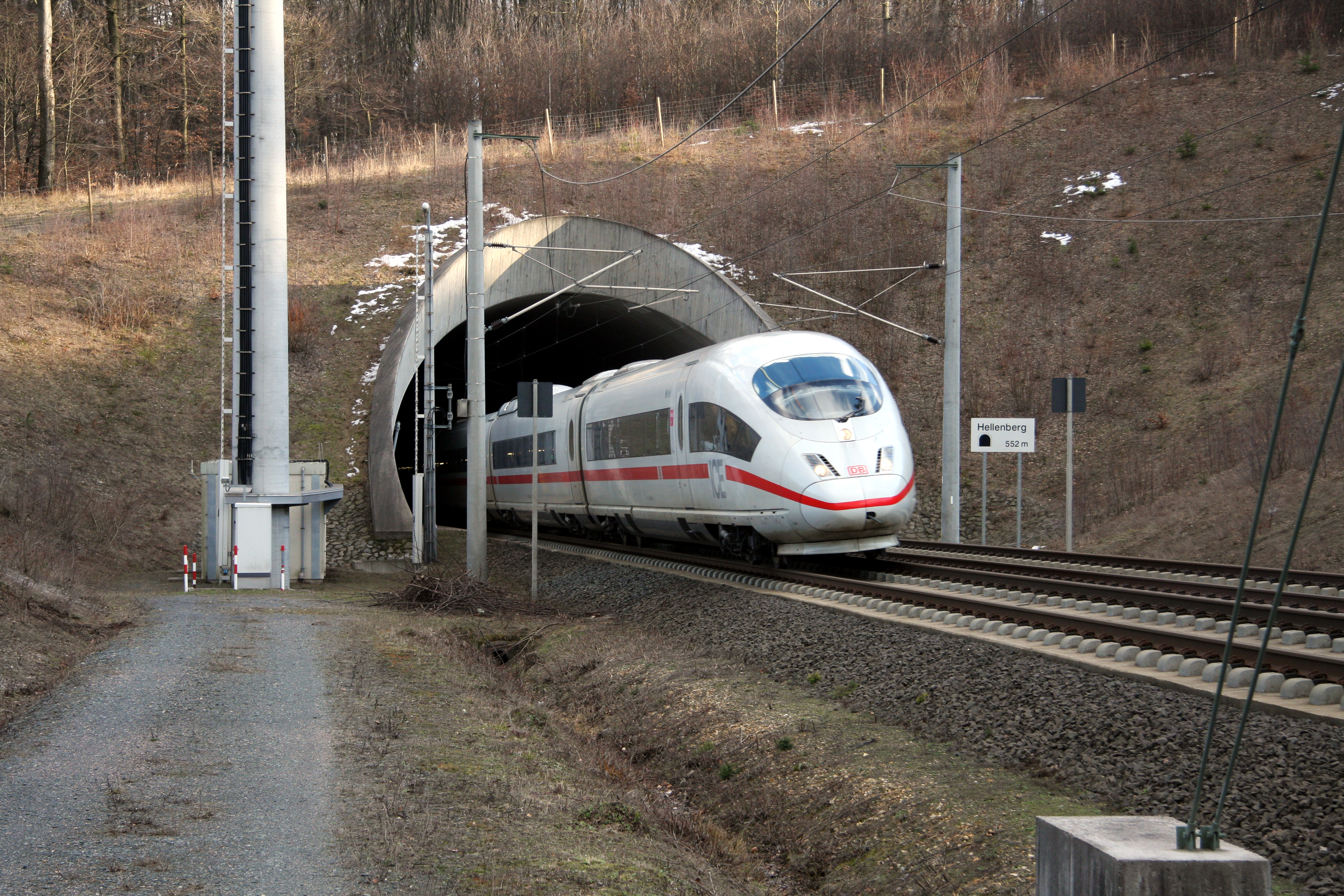 The nothern gate of the Hellenberg-tunnel of the Cologne–Frankfurt high-speed rail line